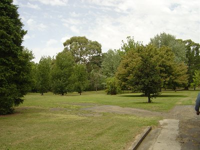 Bloomfield Hospital, Orange: Bloomington Hospital. View from the former female wards